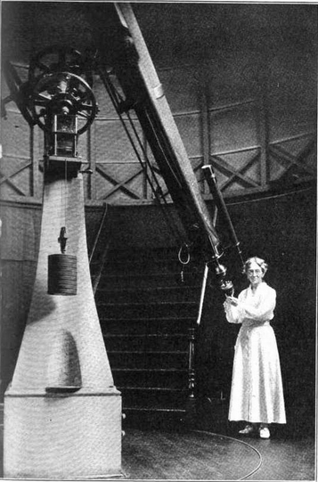 "The Woman Citizen" Professor Caroline Furness, of the Department of Astronomy, Vassar College The small woman and the great telescope (June 24, 1869 – February 9, 1936)